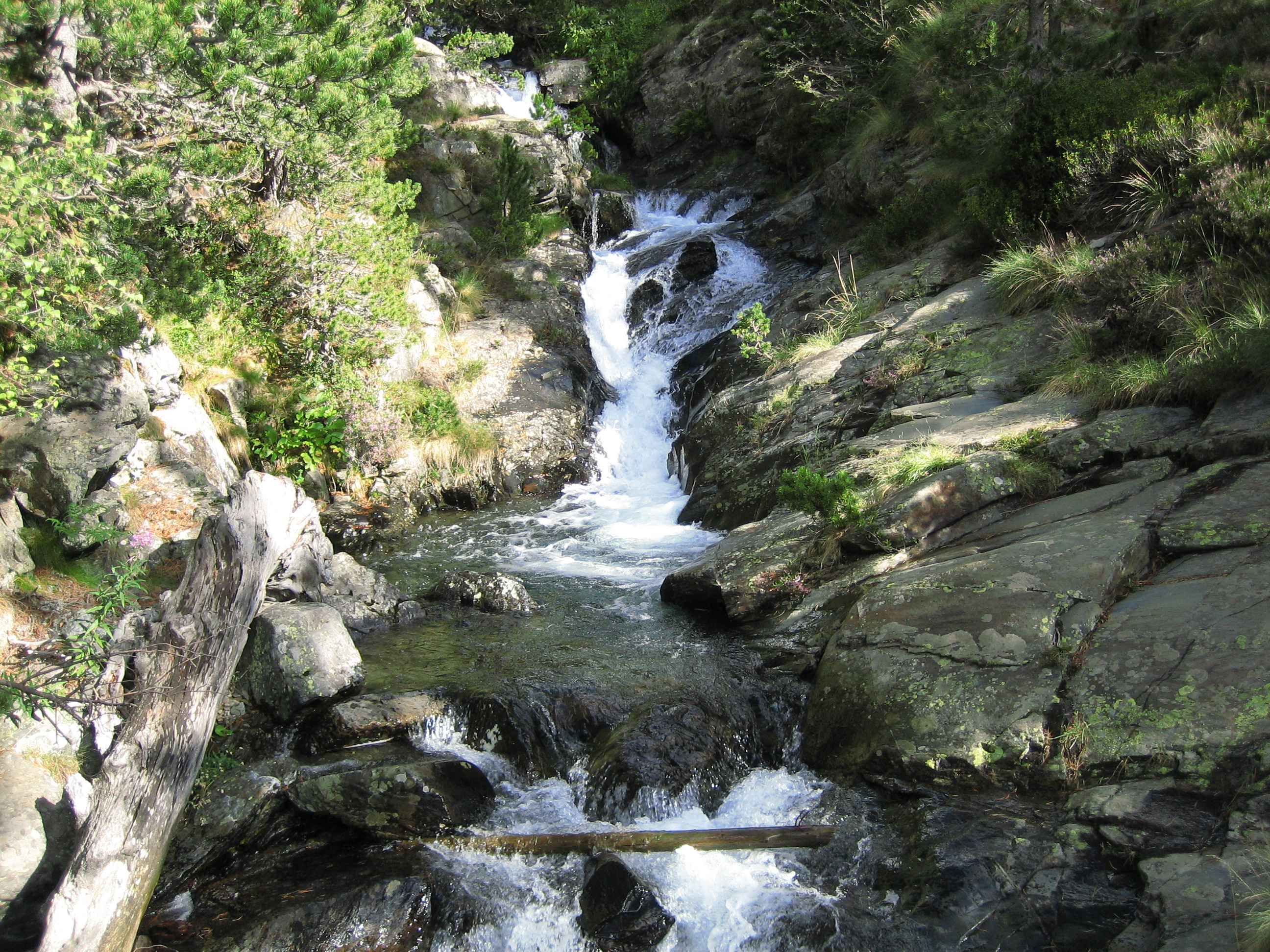 Riu del Pla de l'Estany in Arinsal, La Massana, Andorra